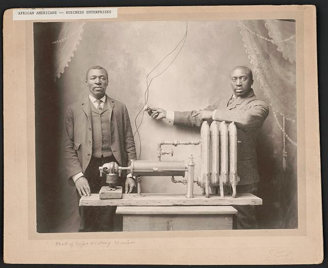 Black and white photograph showing inventor Charles S.L Baker and another man demonstrating heating/radiator system.